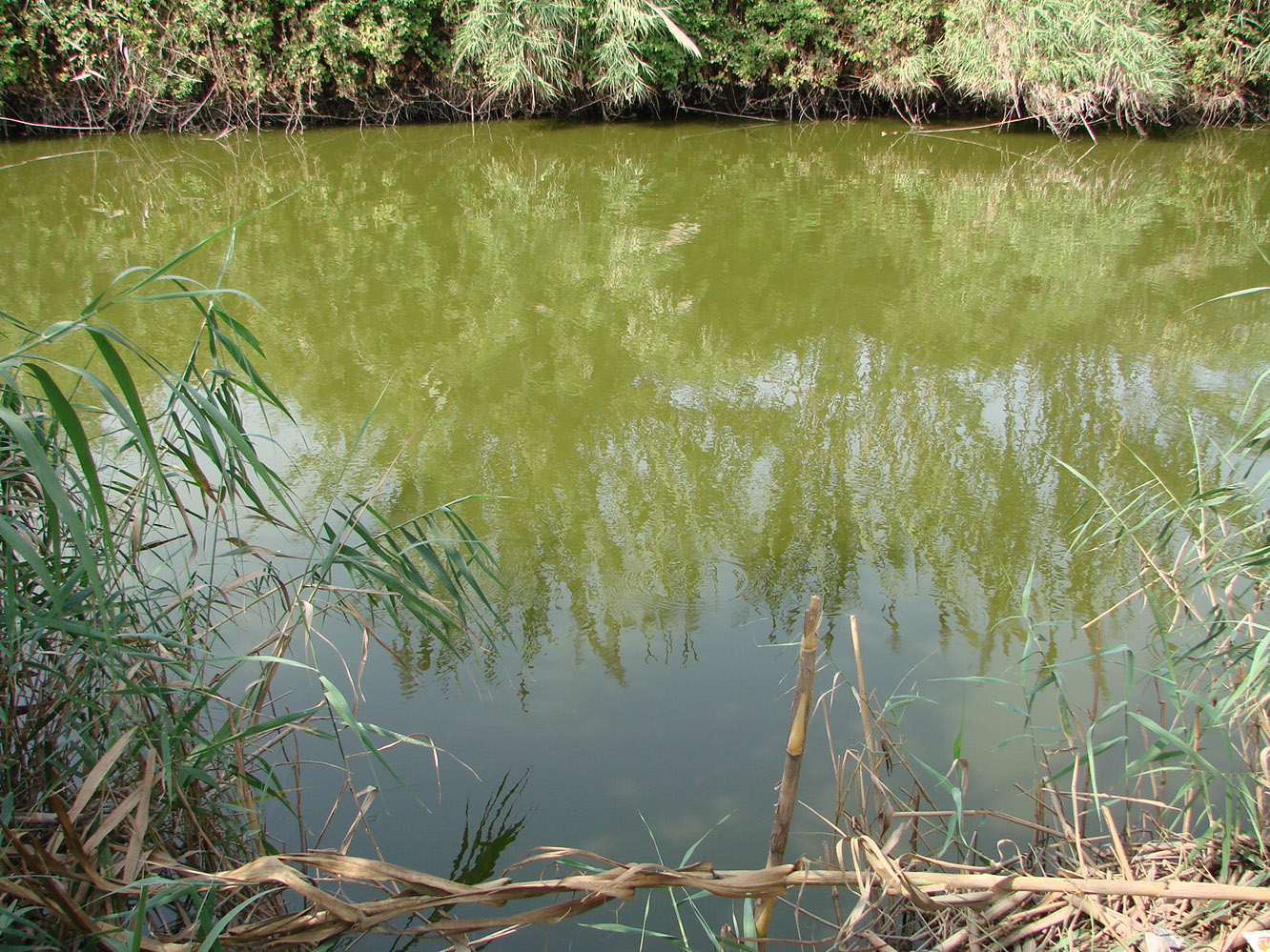 River in jooybar